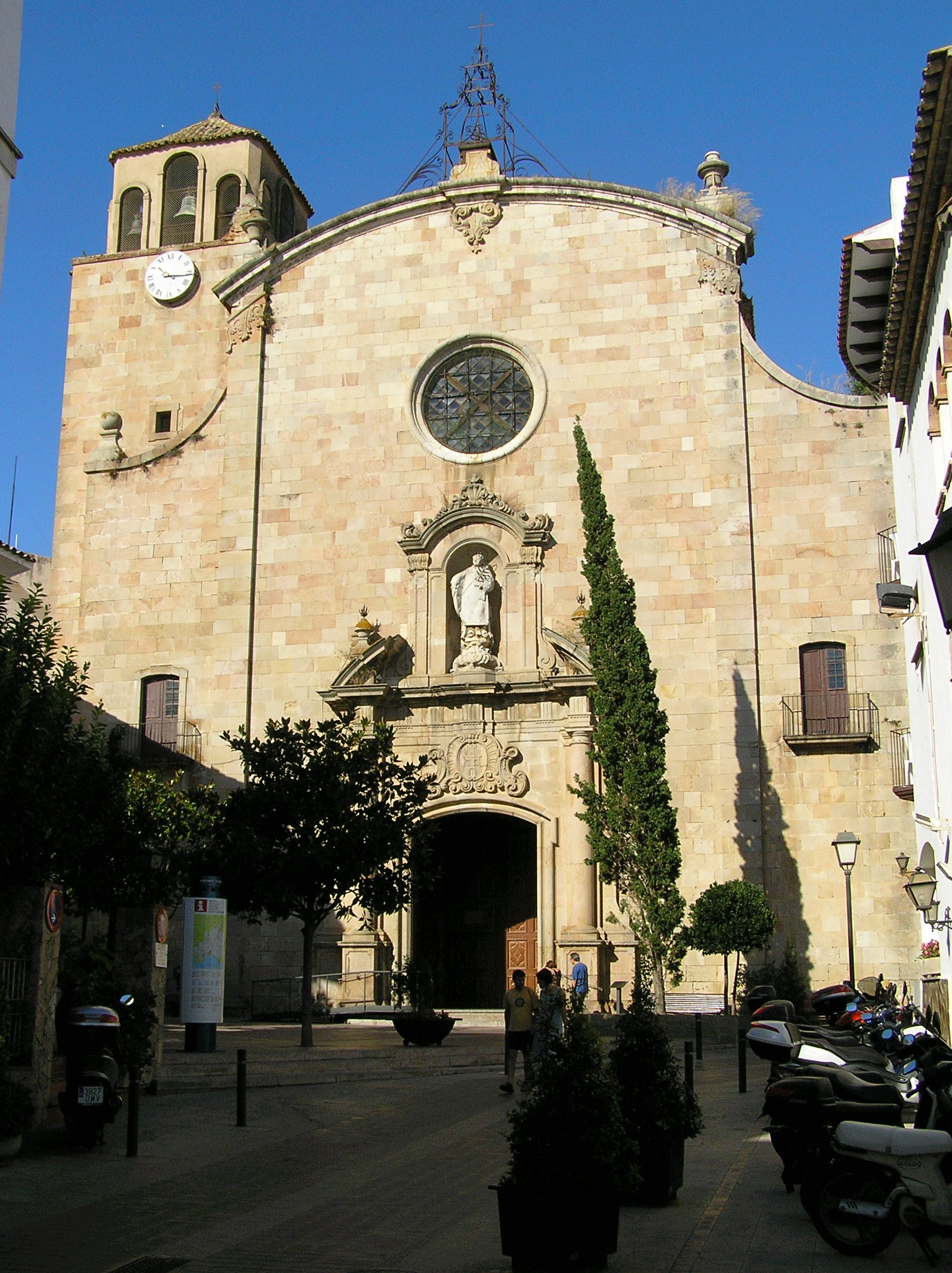 Tossa. Baroque church (XVIIIth century)